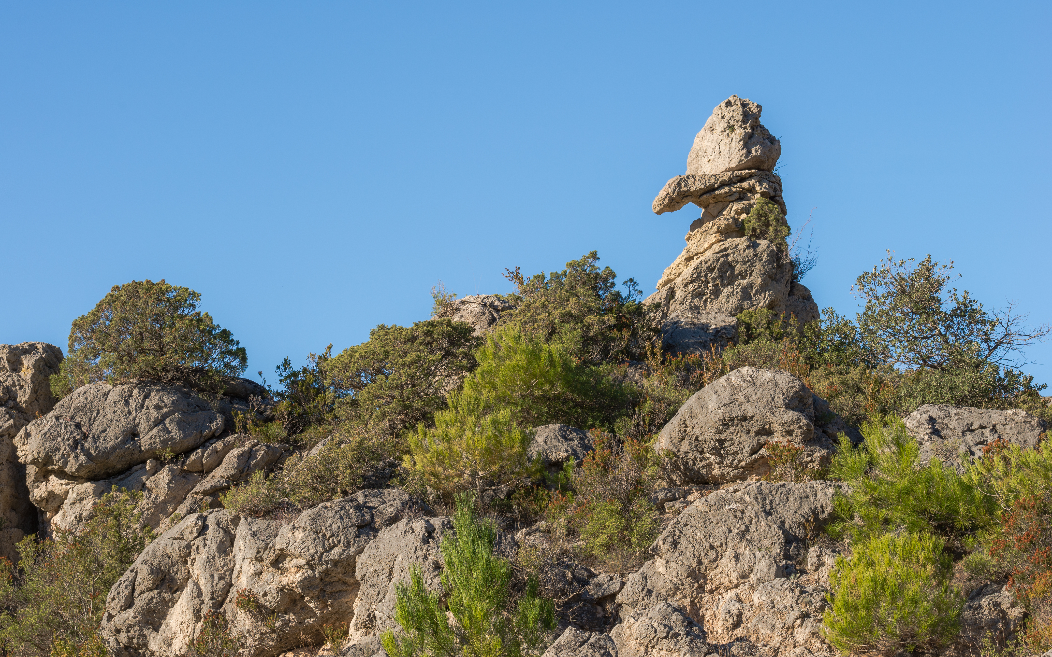 A sedimentary rock in the funny shape sculptured by the erosion. The "Cirque de Mourèze" is a steephead of whitch the chaotic appearance was made by the erosion of dolomite rocks. Mourèze, Hérault, France.